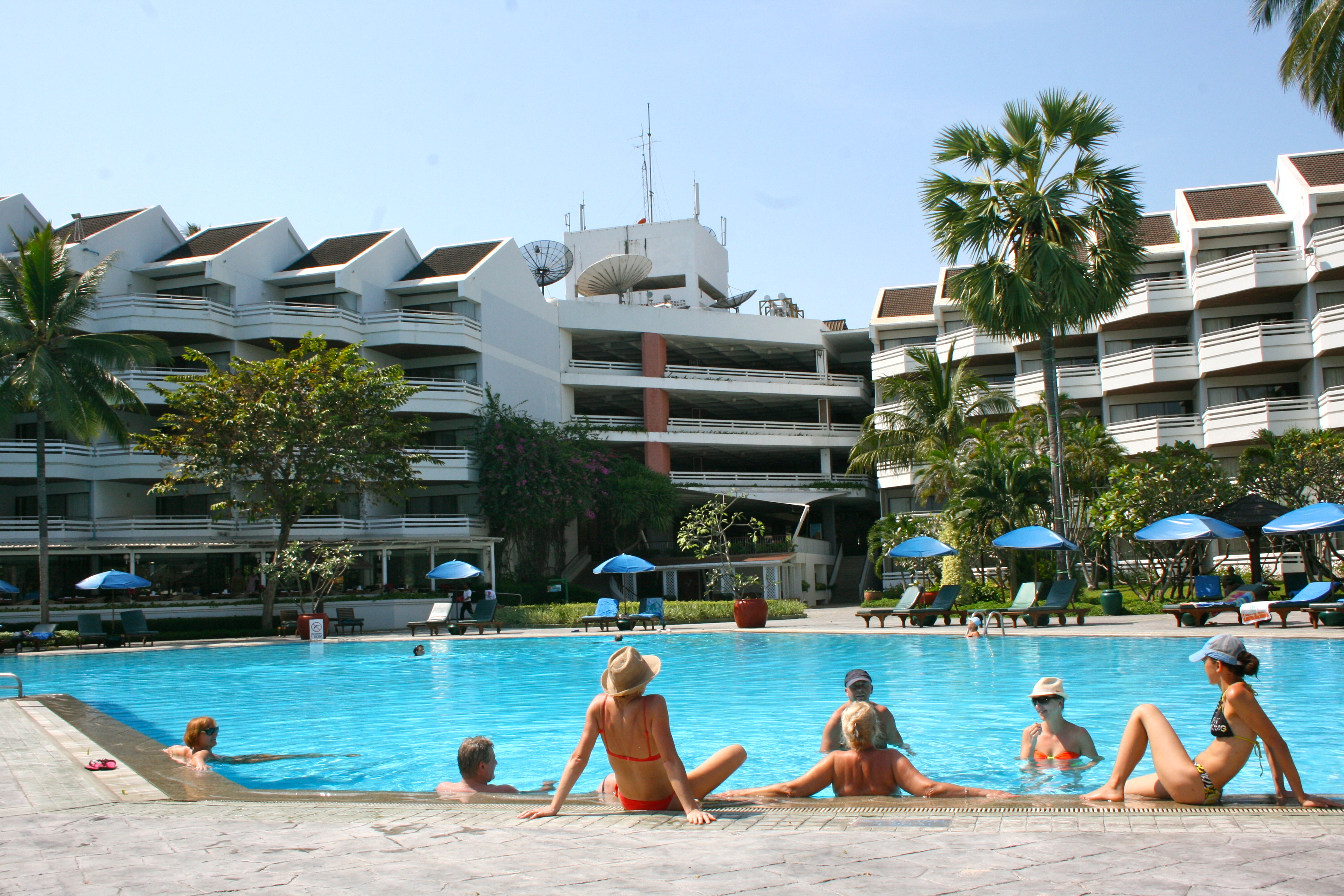 The Holiday Inn Regent Beach Cha 'am has a superb big swimming pool